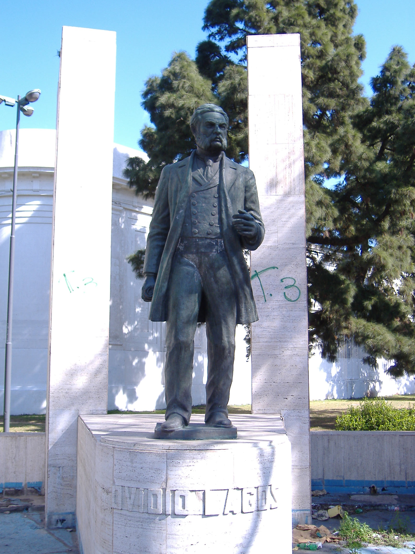 Statue and monument, by Nicolás Antonio de San Luis, dedicated to Ovidio Lagos, journalist, politician and activist for the cause of federalism, in Rosario, Argentina. Located at the corner of the avenue who carries his name and Pellegrini Ave.